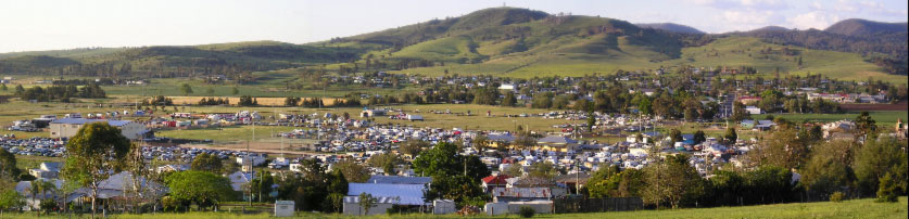 View of the township of Killarney, Queensland